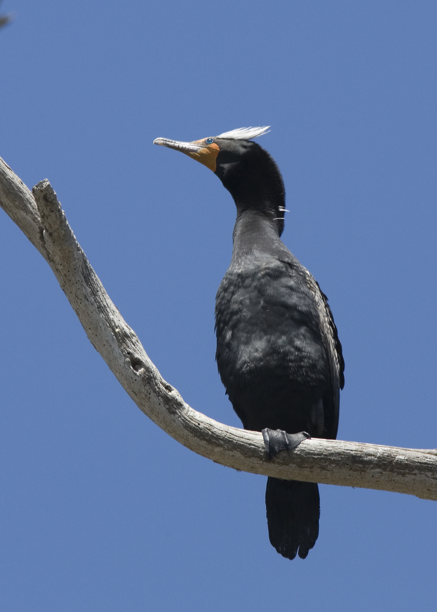 Double-crested Cormorant in breeding plumage perching on a branch at Morro Bay, California, USA.